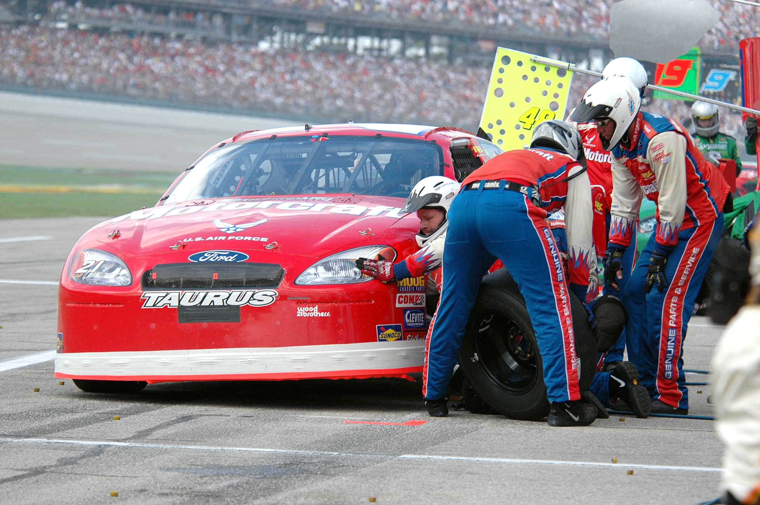 TALLADEGA, Ala. -- The Wood Brothers Racing Team conduct a 10-second pit stop on the No. 21 Air Force-sponsored NASCAR. The car was recently driven by Ricky Rudd at Talladega Superspeedway on Oct. 2. Four firefighters from Eglin Air Force Base, Fla., are among a group of firefighters from all over the country who travel each spring and fall to keep NASCAR drivers and race teams safe. (U.S. Air Force photo by Senior Airman Mike Meares)